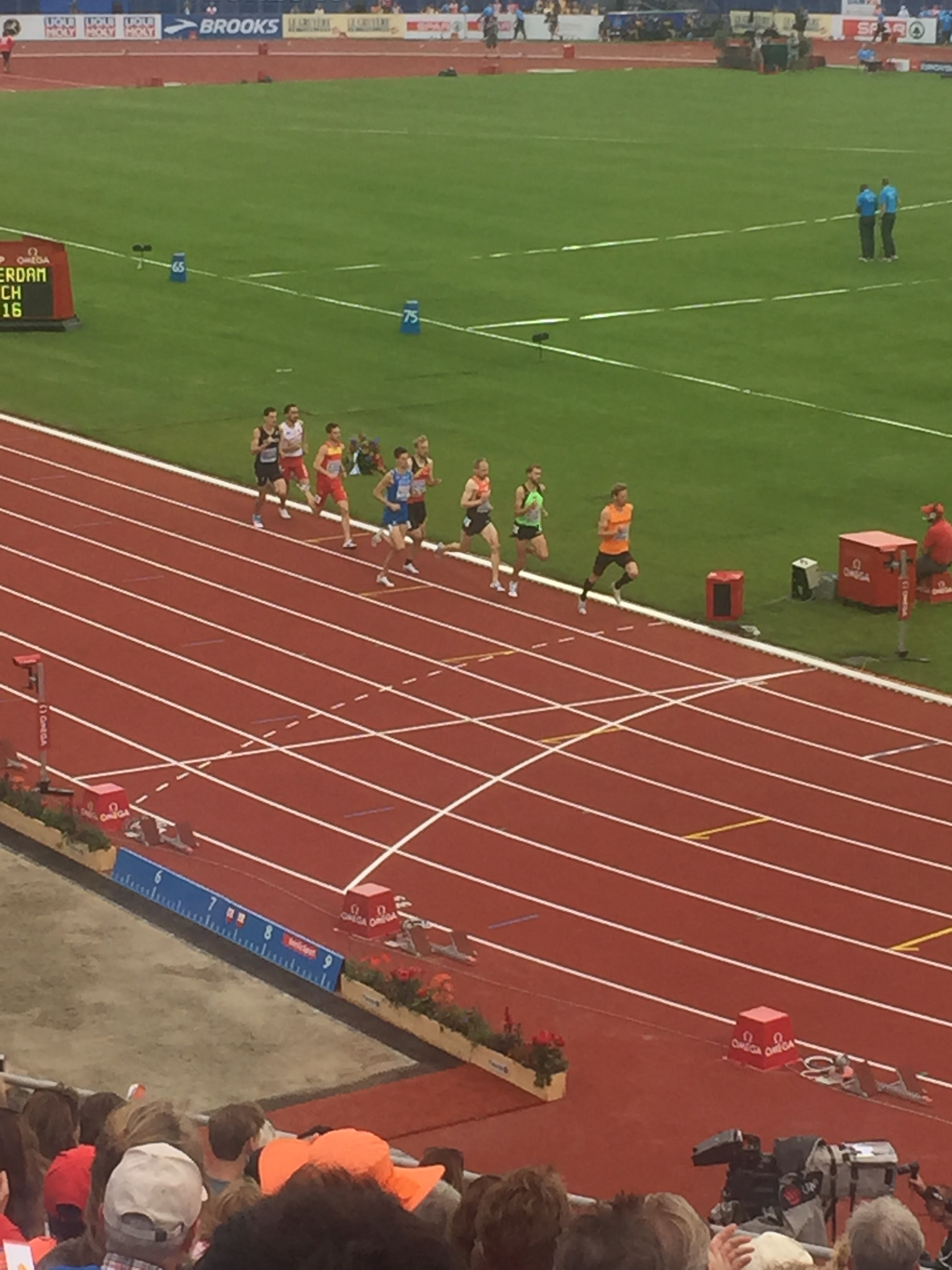 European Athletic Championships 2016 in Amsterdam - 8 July 2016 European Championships in Athletics (8 July) Schedule for this day (evening session): Hepathlon W: 18:05 Shot Put 20:00 200m Round 1: 18:15 1500m W Semi-Finals: 18:35 800m M 18:50 200m M 19:15 100m W Finals: 18:10 Hamer Throw W 19:10 Pole Vault M 19:20 Long Jump W 19:40 400m Hurdles M 19:50 400m M 20:15 Discus Throw W 20:25 400m W 20:35 200m M 20:45 10,000m M 21:25 3000m Steeplechase M 21:45 100m W